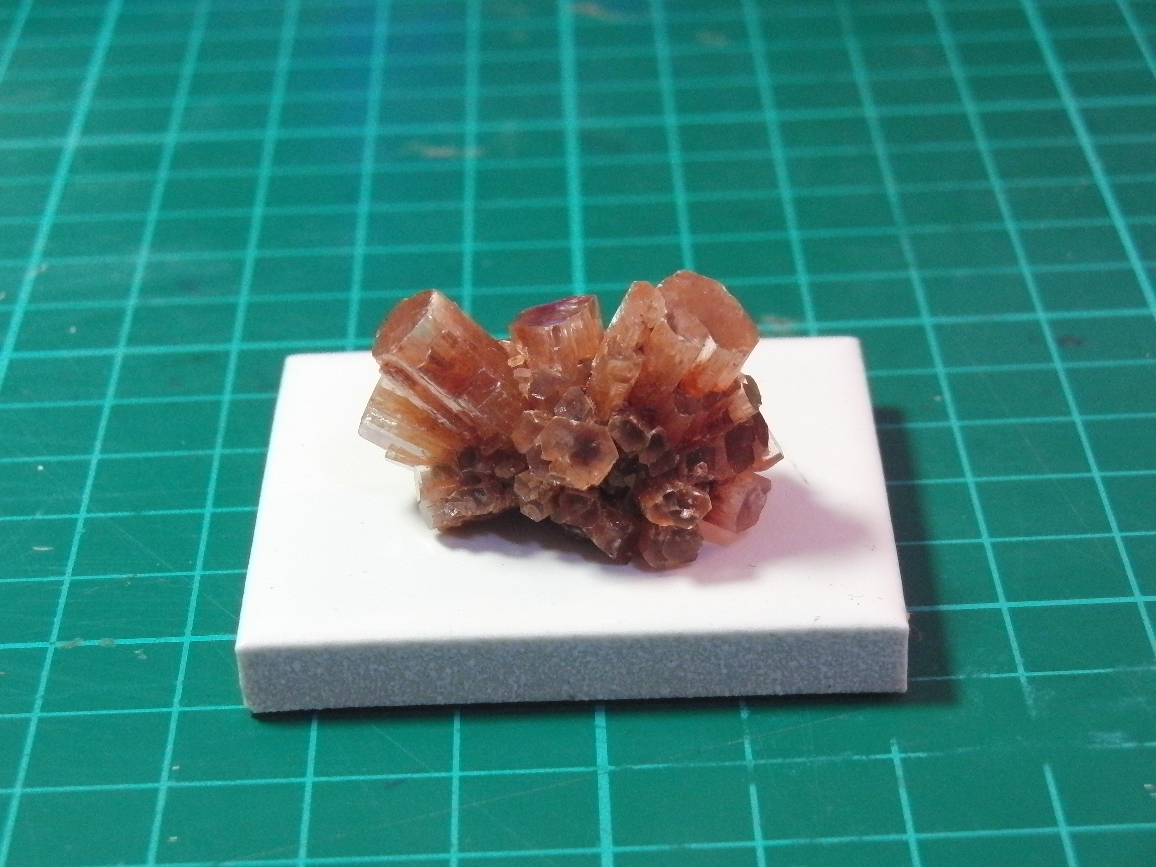 AragoniteAragonite crystal